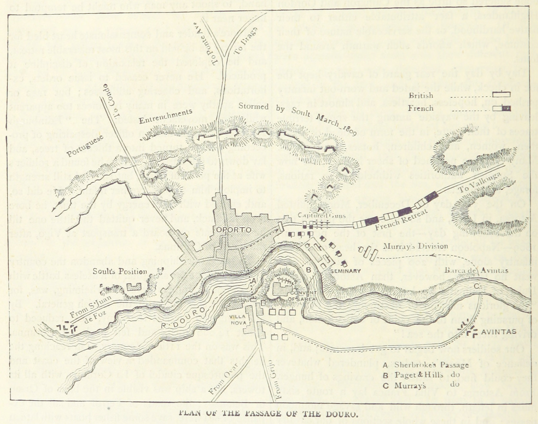 A map of the Second Battle of Porto, also called the Battle of the Douro.